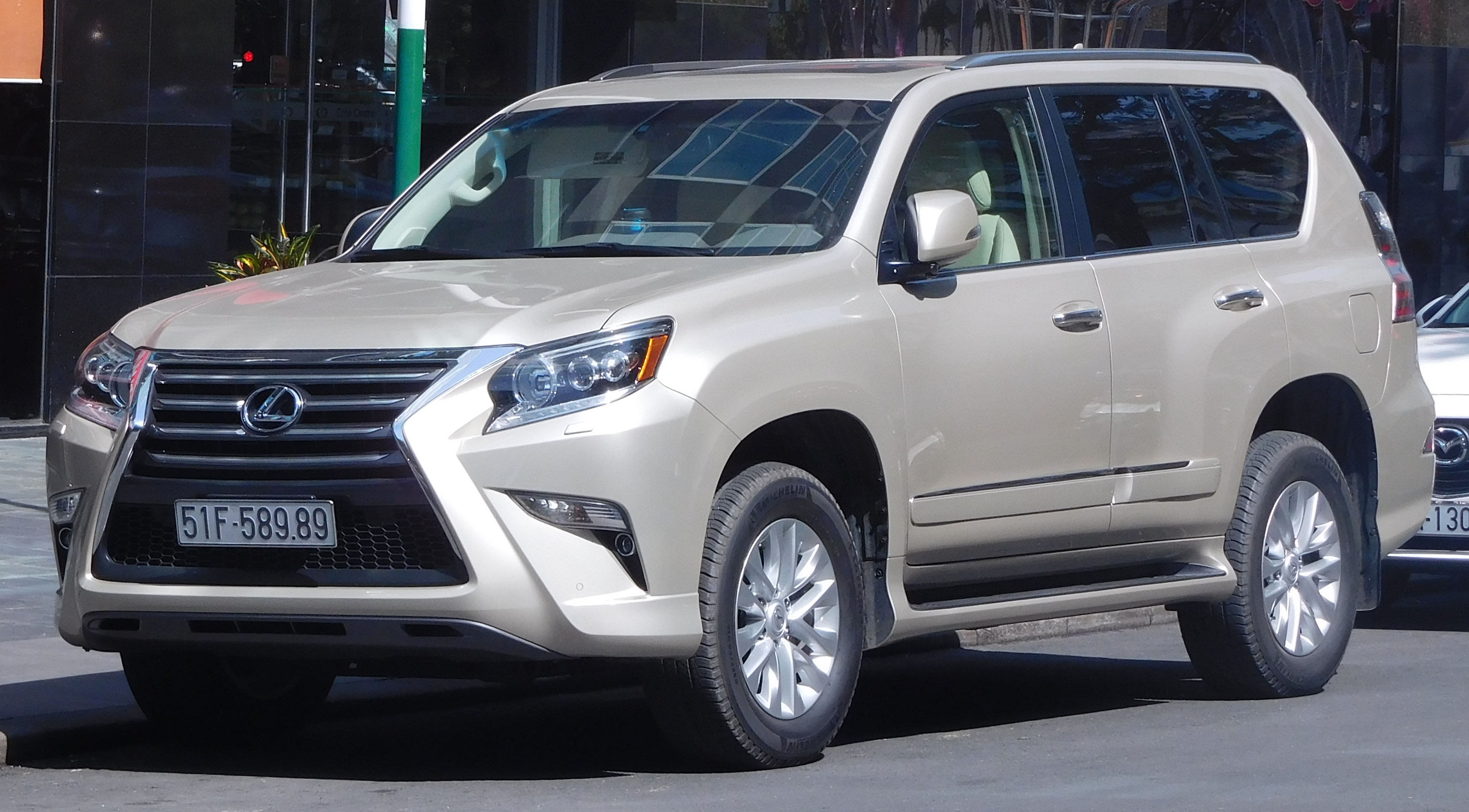 2015 Lexus GX 460 (URJ150R) wagon. Photographed in Ho Chi Minh City, Vietnam.